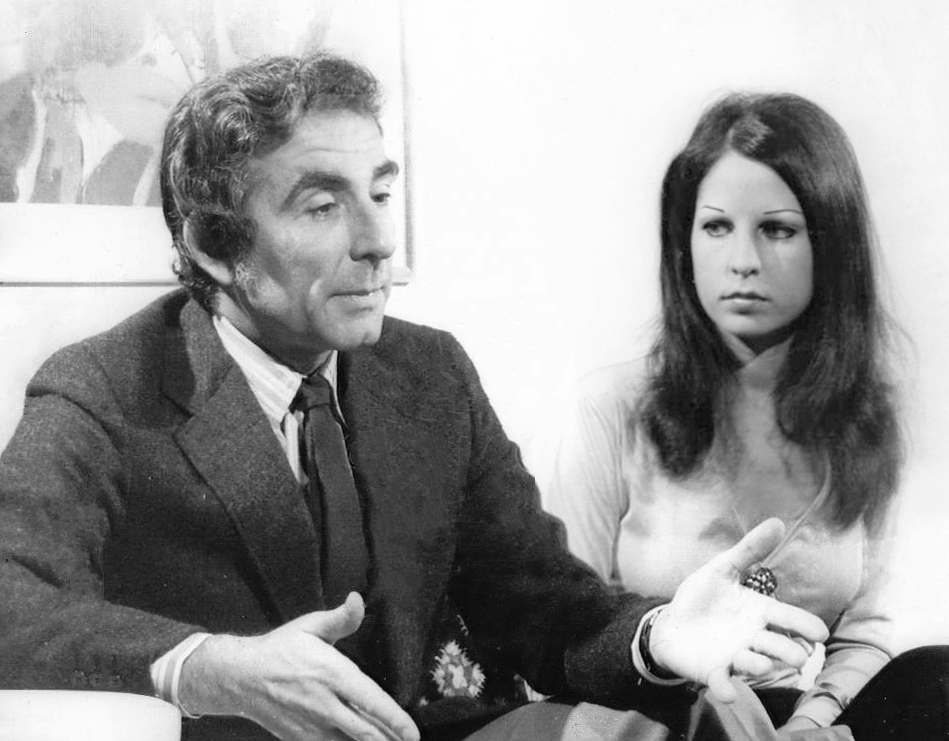 1972 Press Photo Nobel Prize Winner Leon N Cooper and wife - mja89183